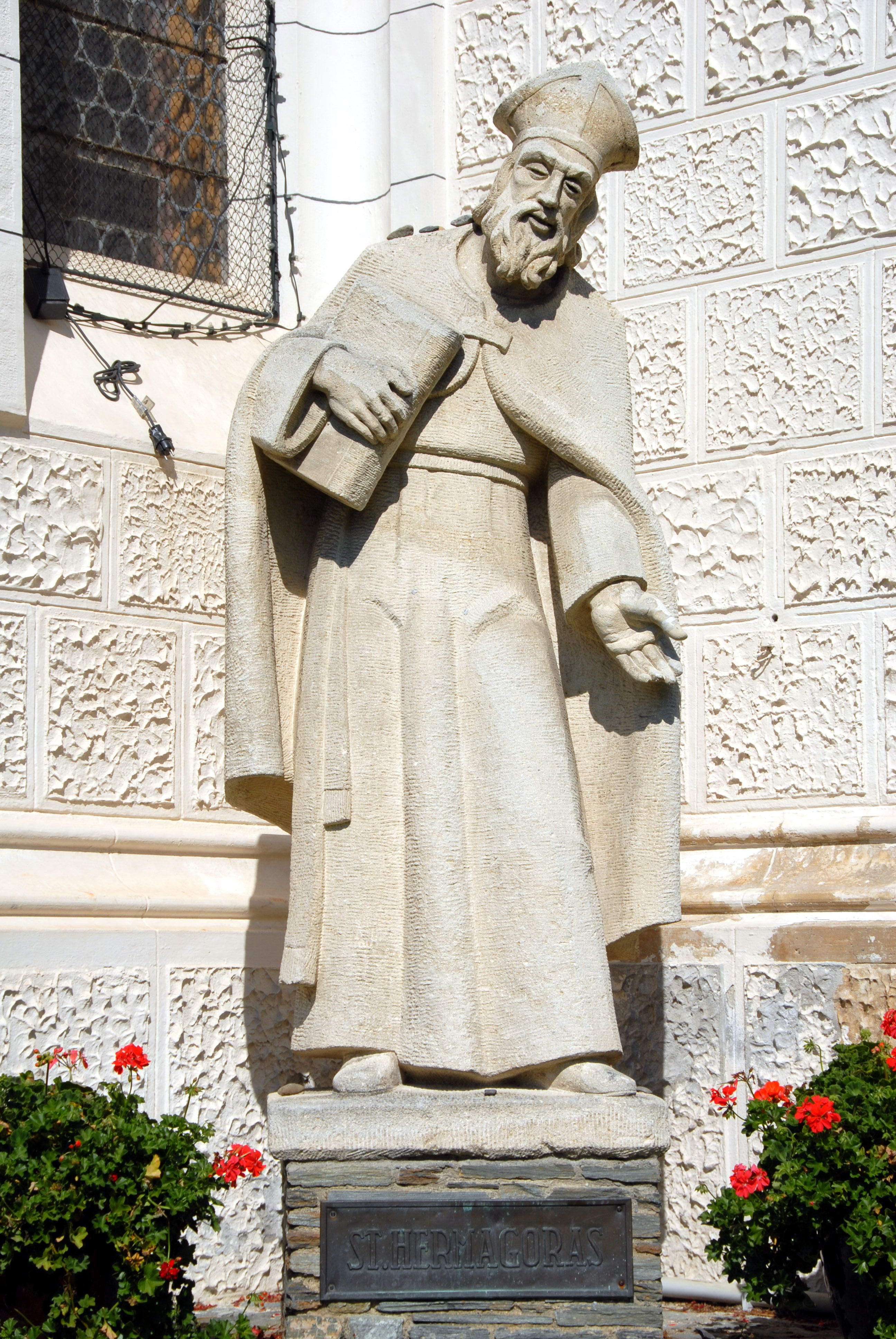 Saint Hermagoras statue in front of the parish church in Hermagor, municipality Hermagor-Pressegger See, Carinthia, Austria